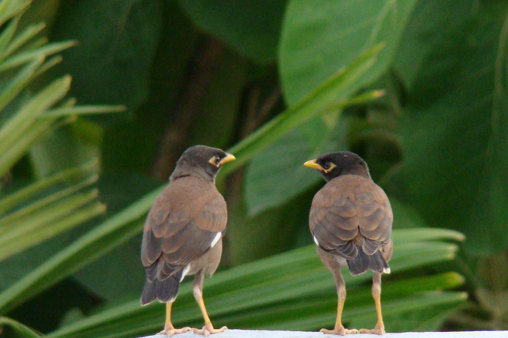 Shalikh / Common Myna (Acridotheres tristis)